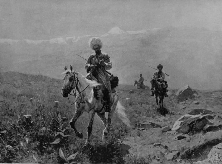 This creation is painted by and comes from a rare art journal printed in 1894 by Franz Alekseyevich Roubaud (1856 - 1928), he was a Russian painter who created some of the largest and best known panoramic paintings. The painting Horsemen of Caucasus depicts Kurdish and Armenian horsemen in the mountains of Caucasus in 1894.